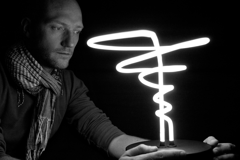 Black Hole Light designed by Mark Champkins on behalf of the Science Museum, London for Stephen Hawking's 70th Birthday